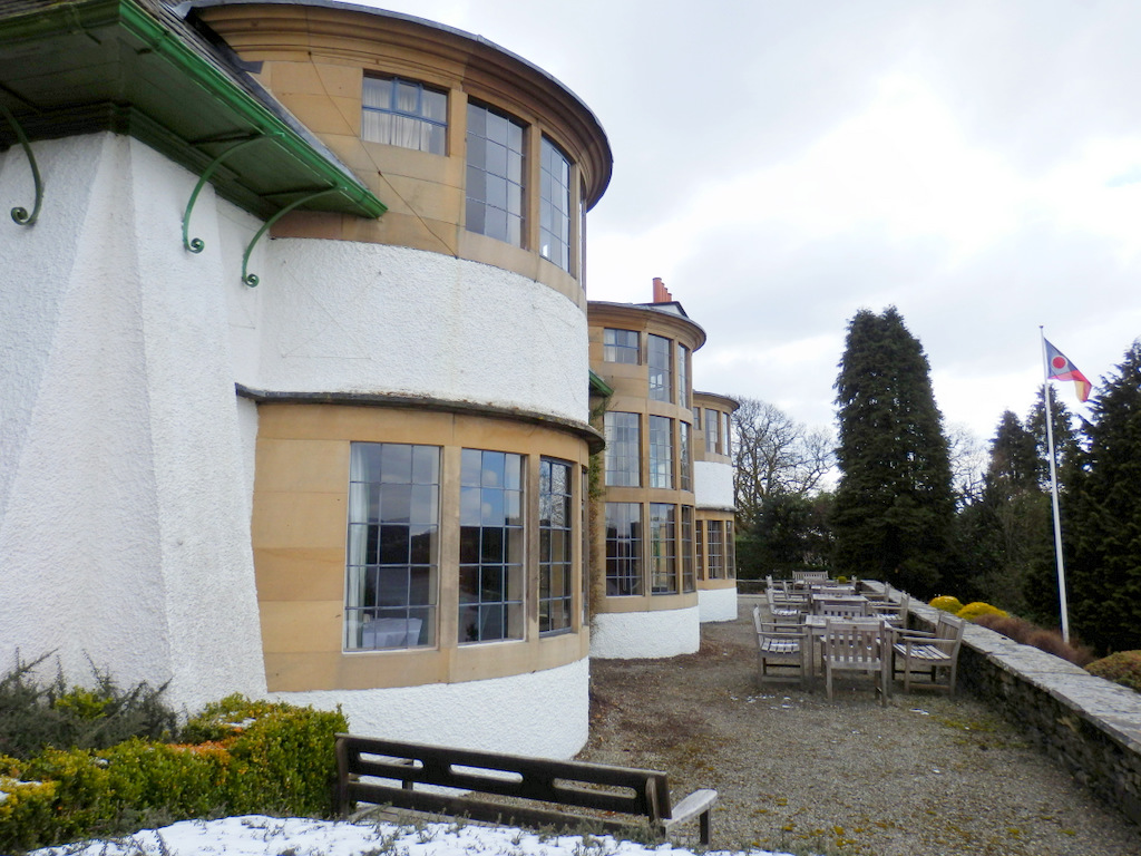 Broadleys